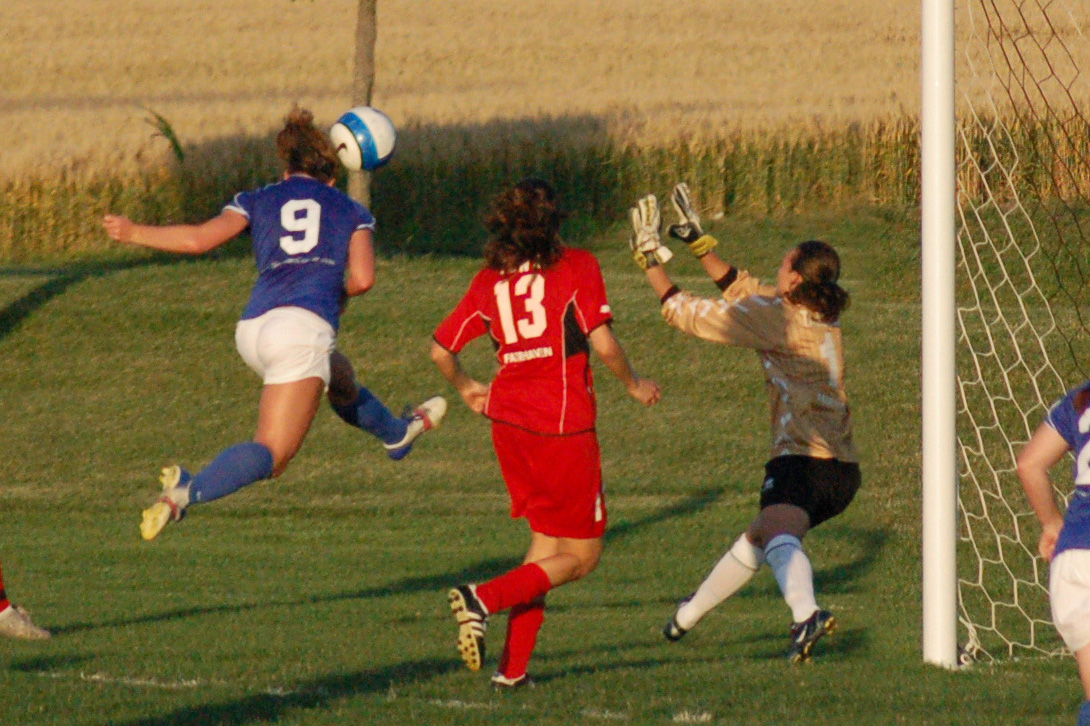 Jennifer Nobis Playing for RCFC